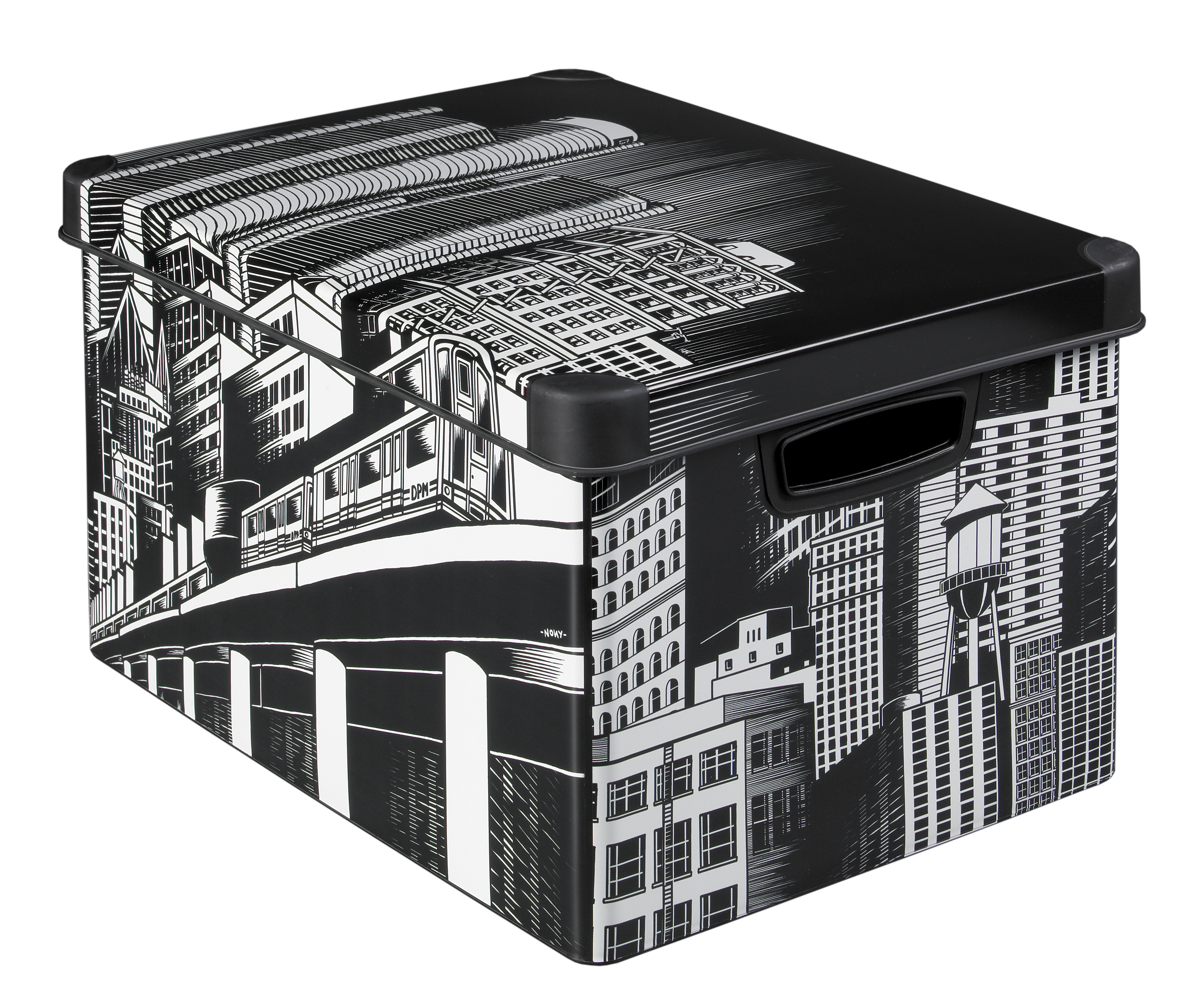 Curver Decobox met IML technologie